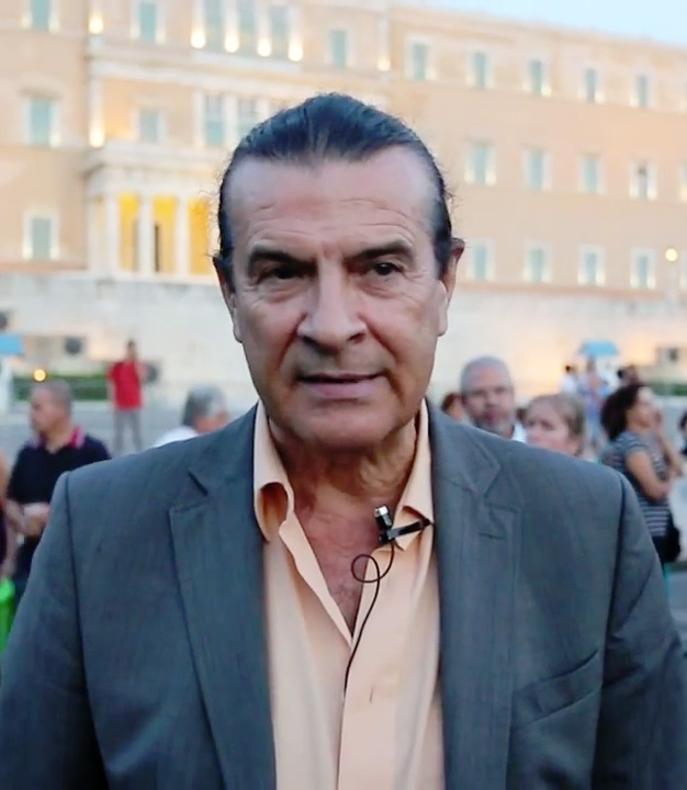 Tasos Kourakis, Greek politician and current Alternate Minister of Education